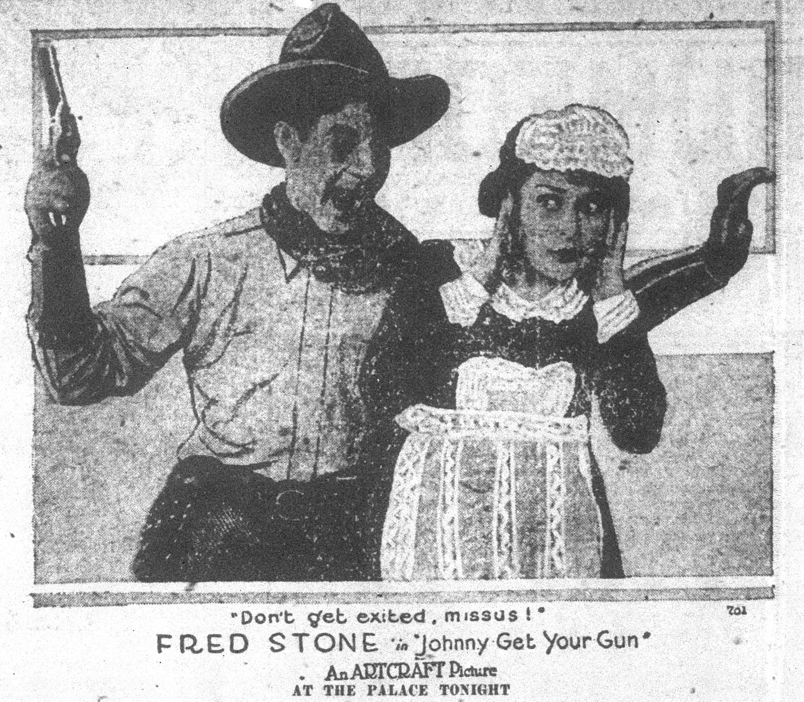 Johnny Get Your Gun is a 1919 American comedy silent film directed by Donald Crisp and written by Edmund Lawrence Burke and Gardner Hunting. This is a publicity photo in a newspaper.